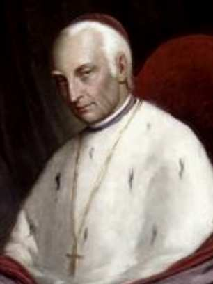 Janos Ham 1781-1857 Bishop of Satu Mare 1827-1848 Archbishop of Esztergom